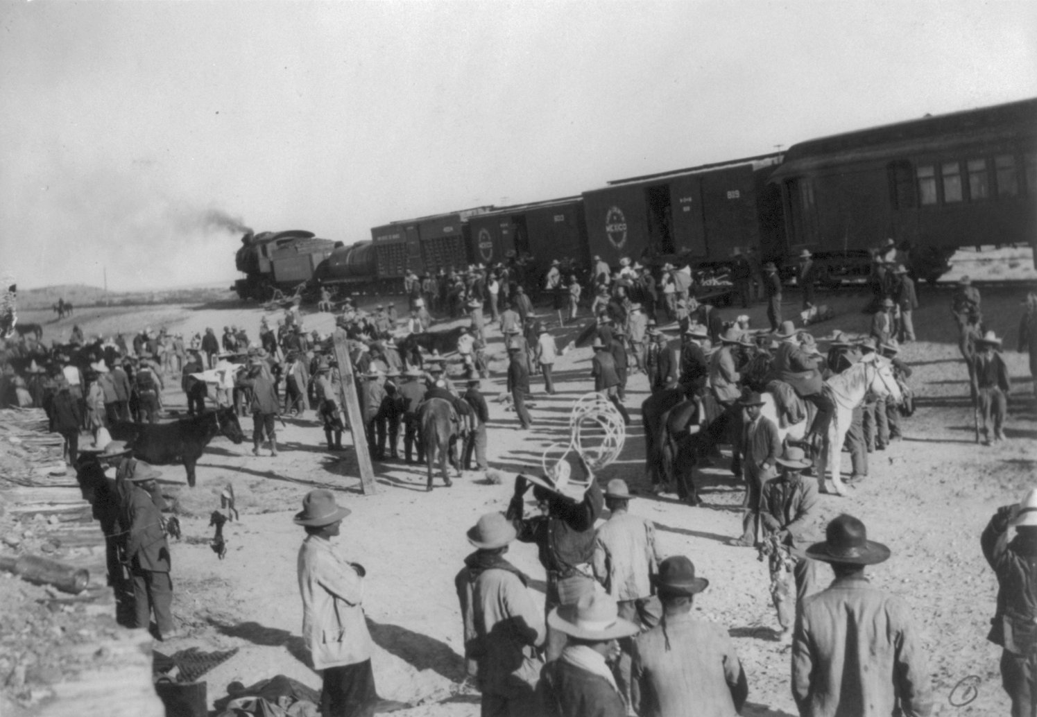 General Salagar's troops moving by train during the Mexican Revolution